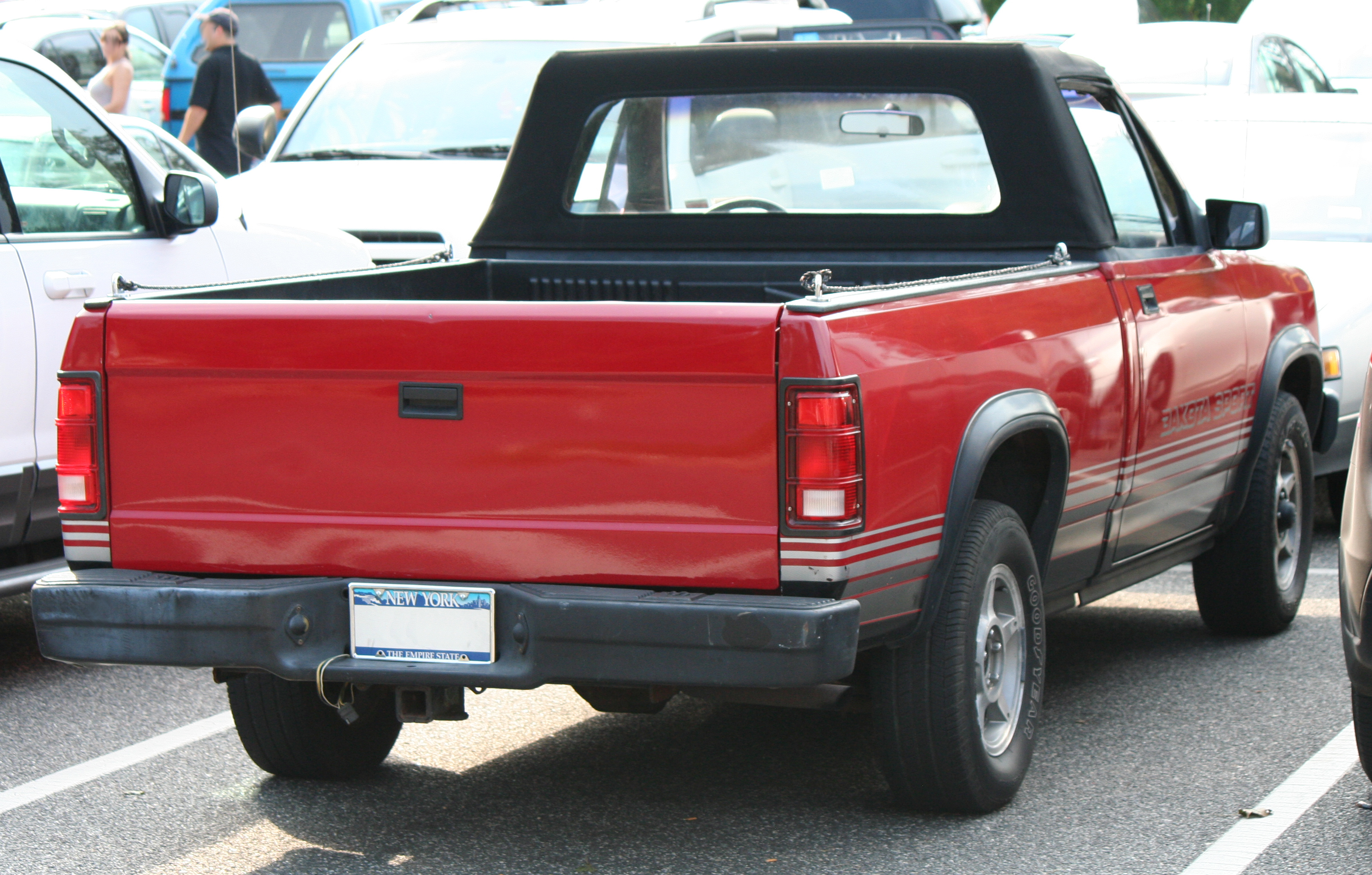 1989 Dodge Dakota Sport Convertible, rare and bizarre. Seen in East Hampton, NY